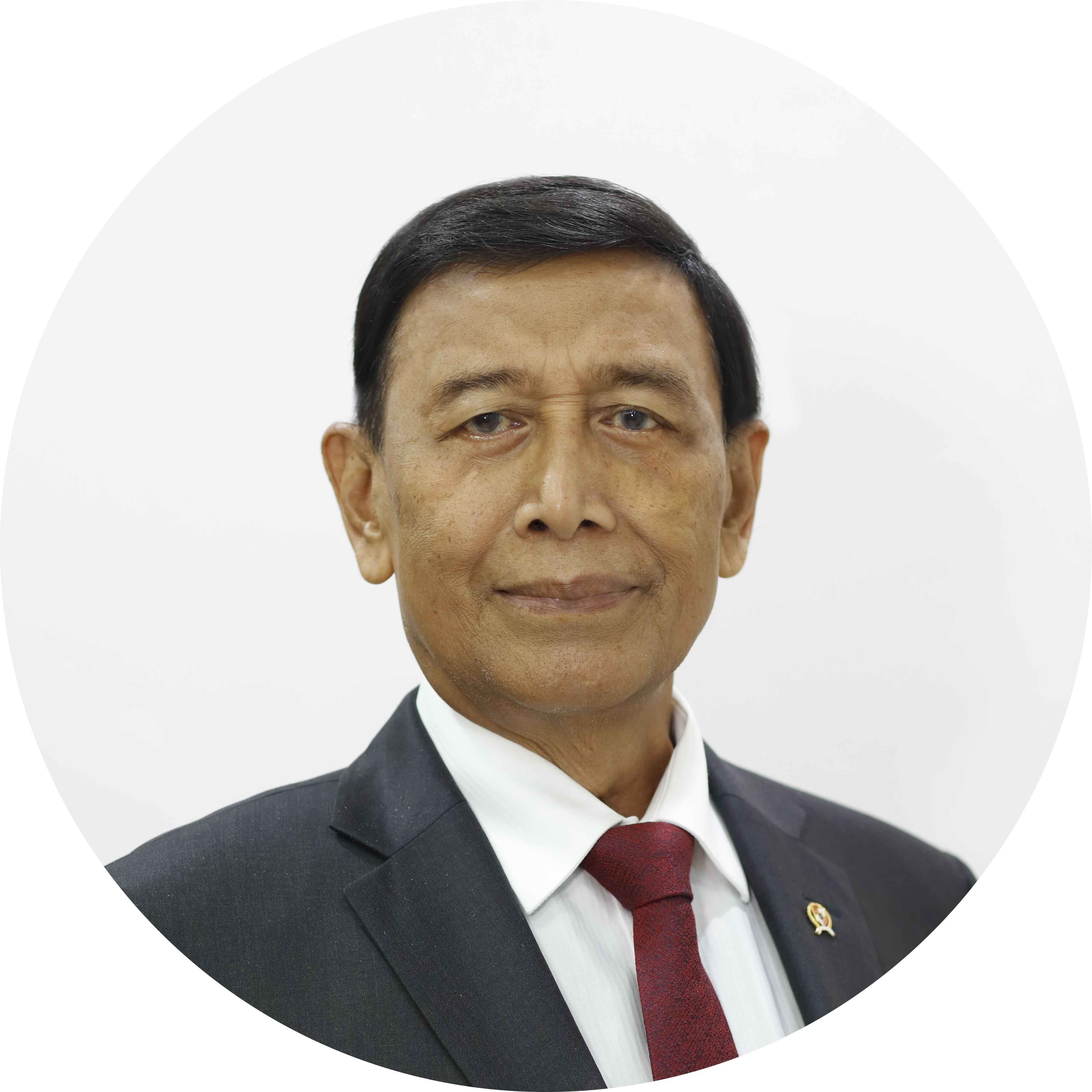 Portrait of Wiranto as a member (concurrently the chairman) of the Presidential Advisory Council of the Republic of Indonesia for 2019